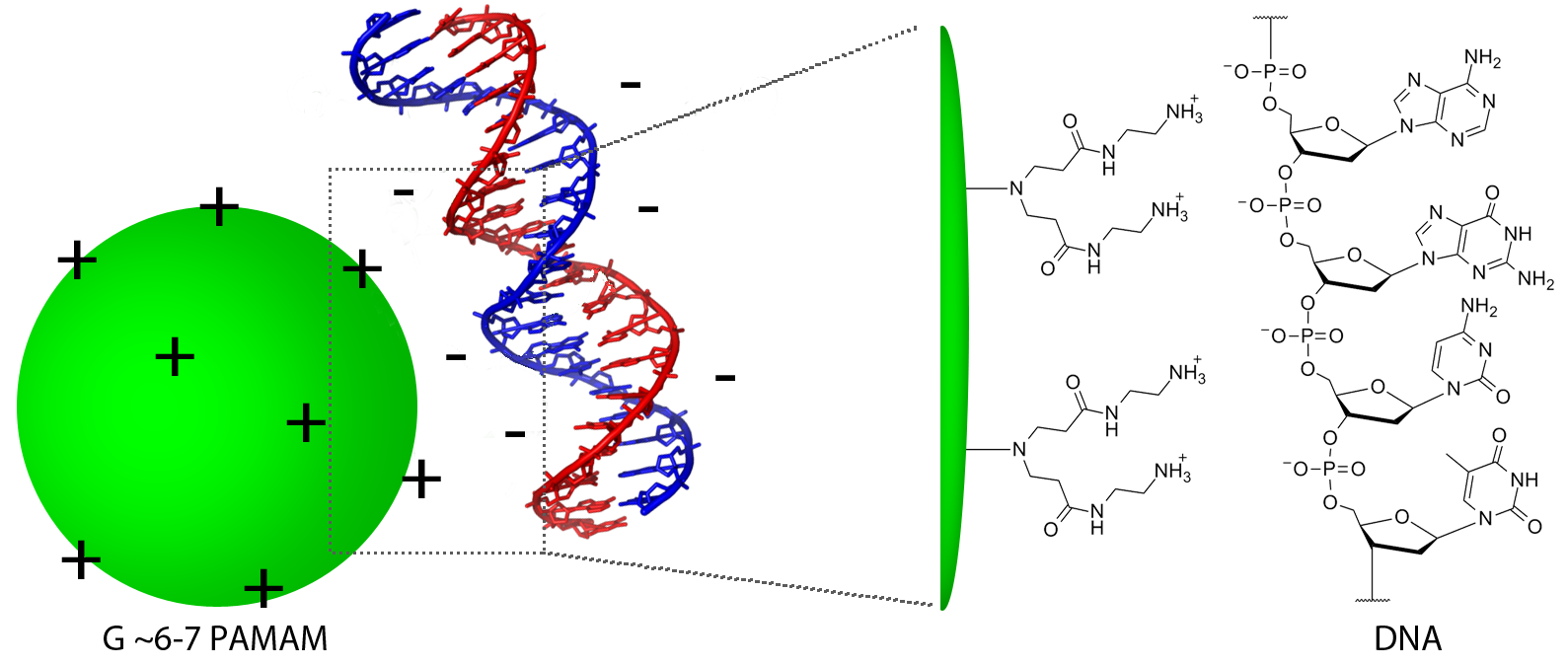 Rough scheme of the mechanism of PAMAM-DNA interaction.